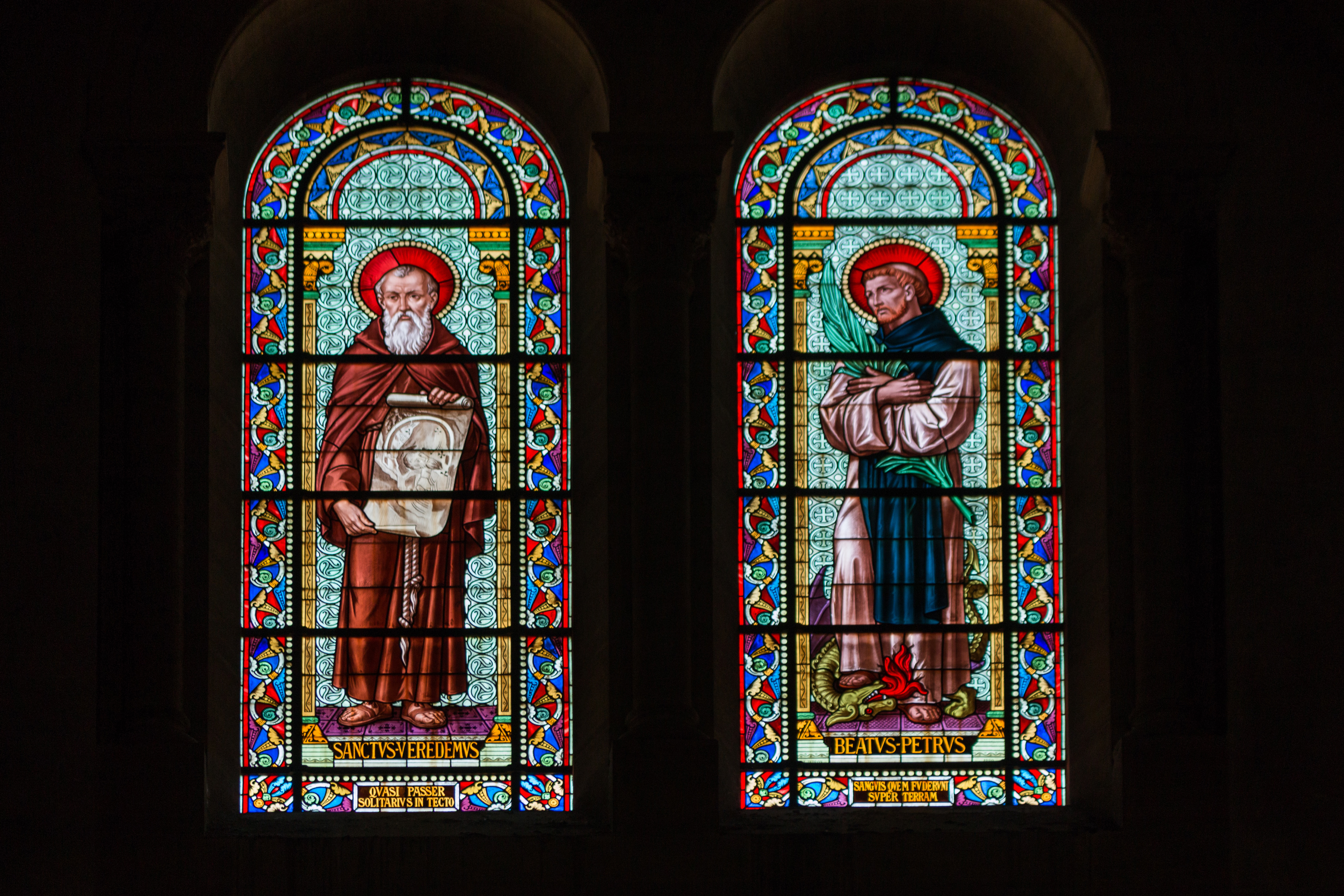 Saint Veredène and the blessed Peter Faber.